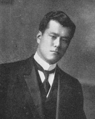 Tadataka Hirohata